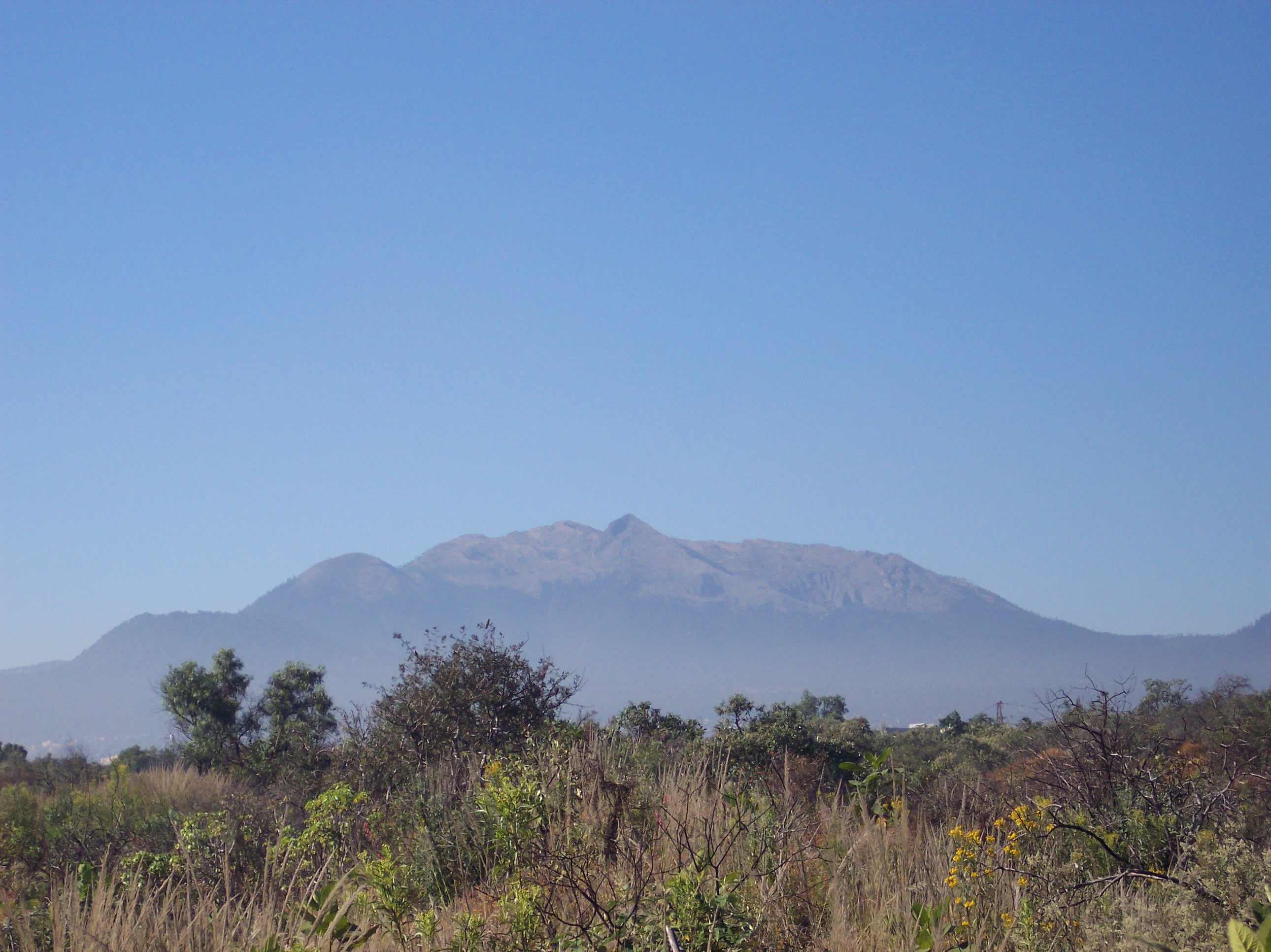 Ajusco mountain as seen from Mexico City A lava dome of the Chichinautzin volcanic field — Mexico, D. F.. Picture taken from University City, Mexico. Picture taken in november 1st by me --Gengiskanhg 16:34, 1 November 2006 (UTC).